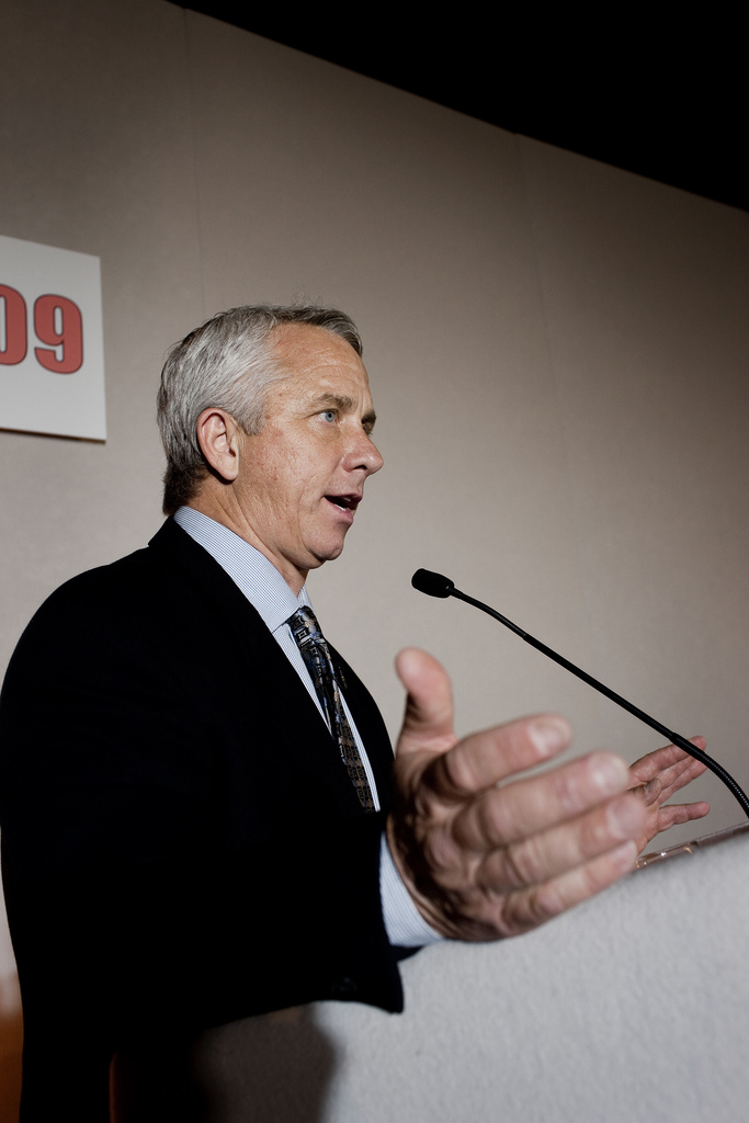 Play the Game 2009 in Coventry, UK 8 - 12 June 2009. A champion's look at the cycling world today. Greg LeMond, Former Tour de France winner and Executive Director of LeMond Fitness Inc. -- Photos taken at Play the Game 2009 by conference photographer Jens Astrup. This photo is free to download and use for press or other purposes, provided both Play the Game and Jens Astrup are credited. We would very much like to hear where photos are used so please send us your links. Visit our homepage at for more information